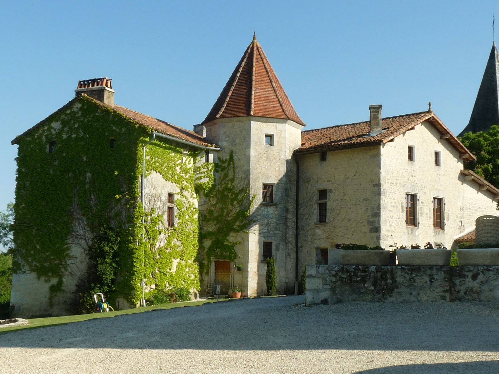 castle of Gurat in spring, Charente, SW France